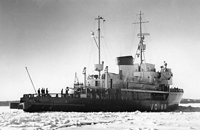 Finnish icebreaker Voima at work shortly after delivery